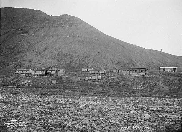 Longyear City (today Longyearbyen) in Svalbard, Norway, two years after it was founded by the Arctic Coal Company.